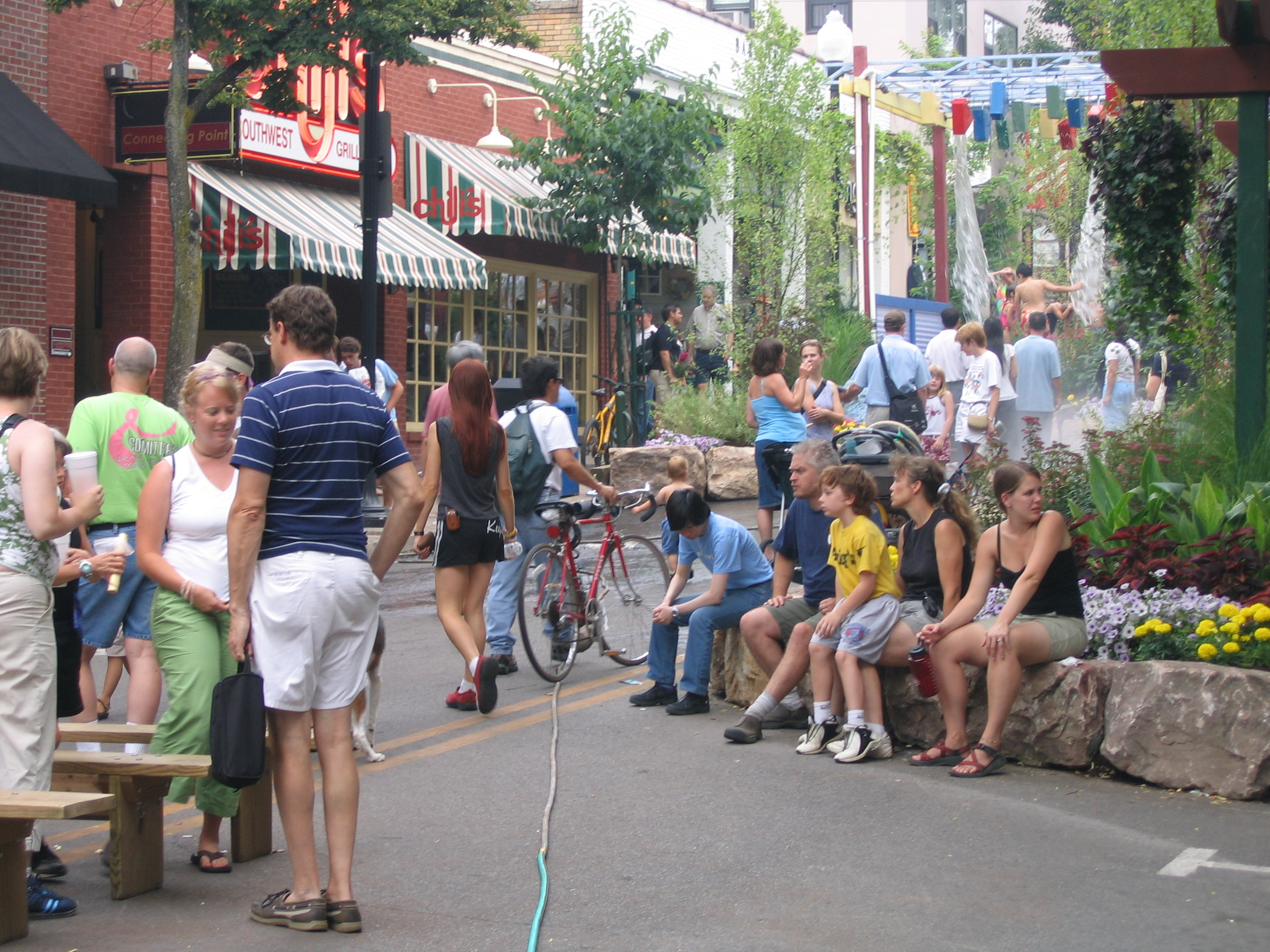 Downtown State College during Art Festival 2005.